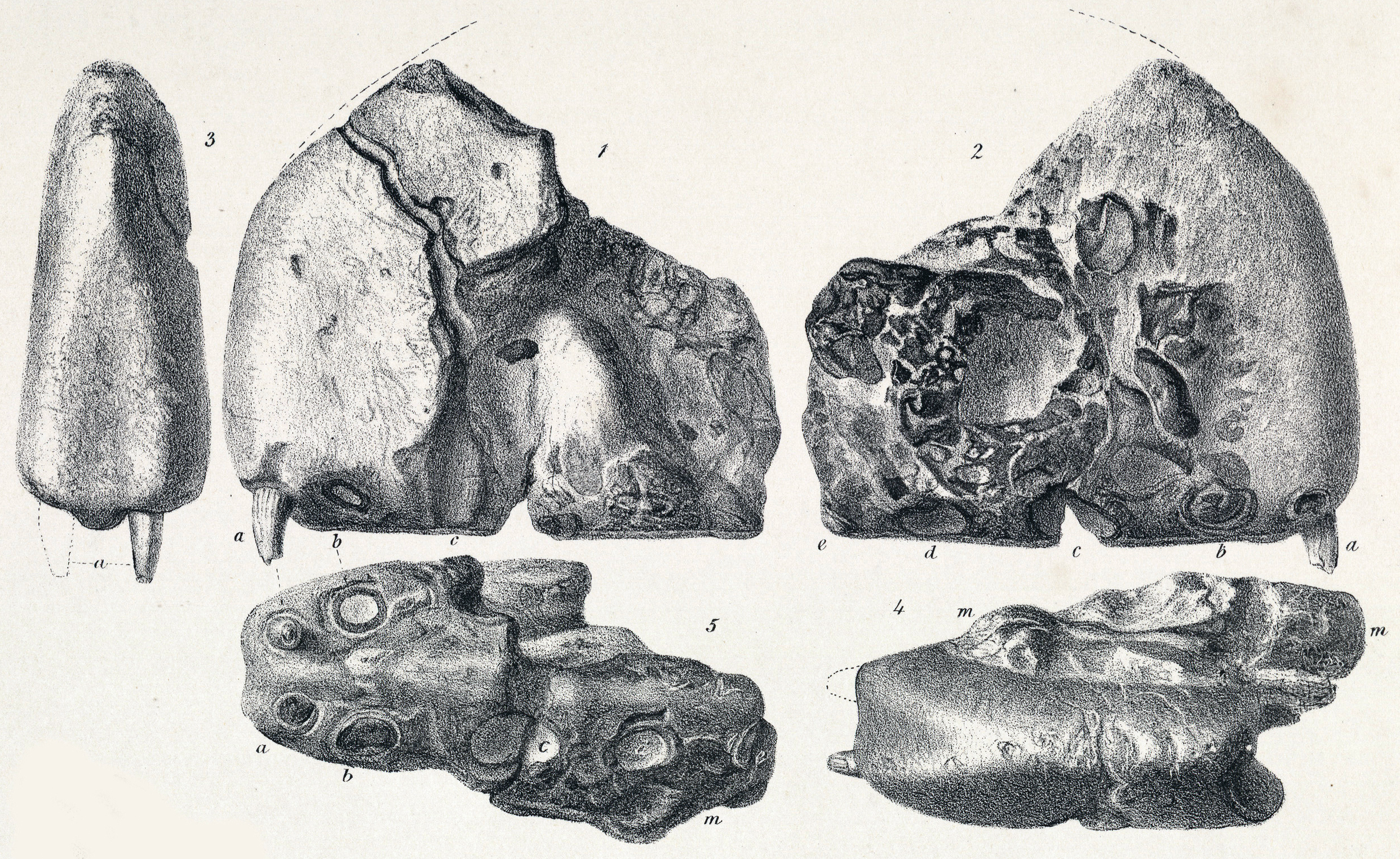 Pterosauria.—Pterodactylus simus. Figs. 1-5. Fore part of skull. All the figures are of the natural size, and from specimens in the Woodwardian Museum, Cambridge; from the Upper Greensand (Newcomian), near that town.